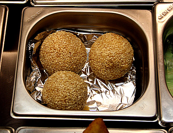 Both crispy and chewy 'Onde Onde', fried sesame seed balls, an Indonesian pastry of Chinese origin, made from glutinous rice flour and coated with sesame seeds on the outside, on display in one of the many Indo (Dutch-Indonesian) Tokos in Amsterdam, The Netherlands, 2011.